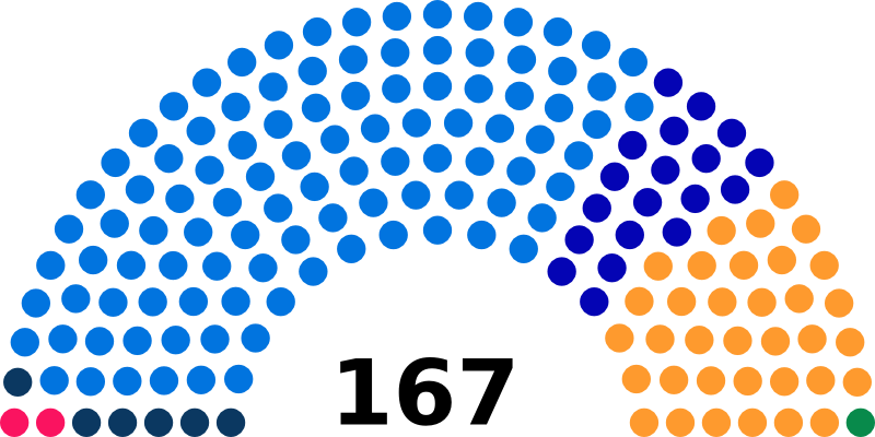 Seats diagramme of Swiss National Council (1905)